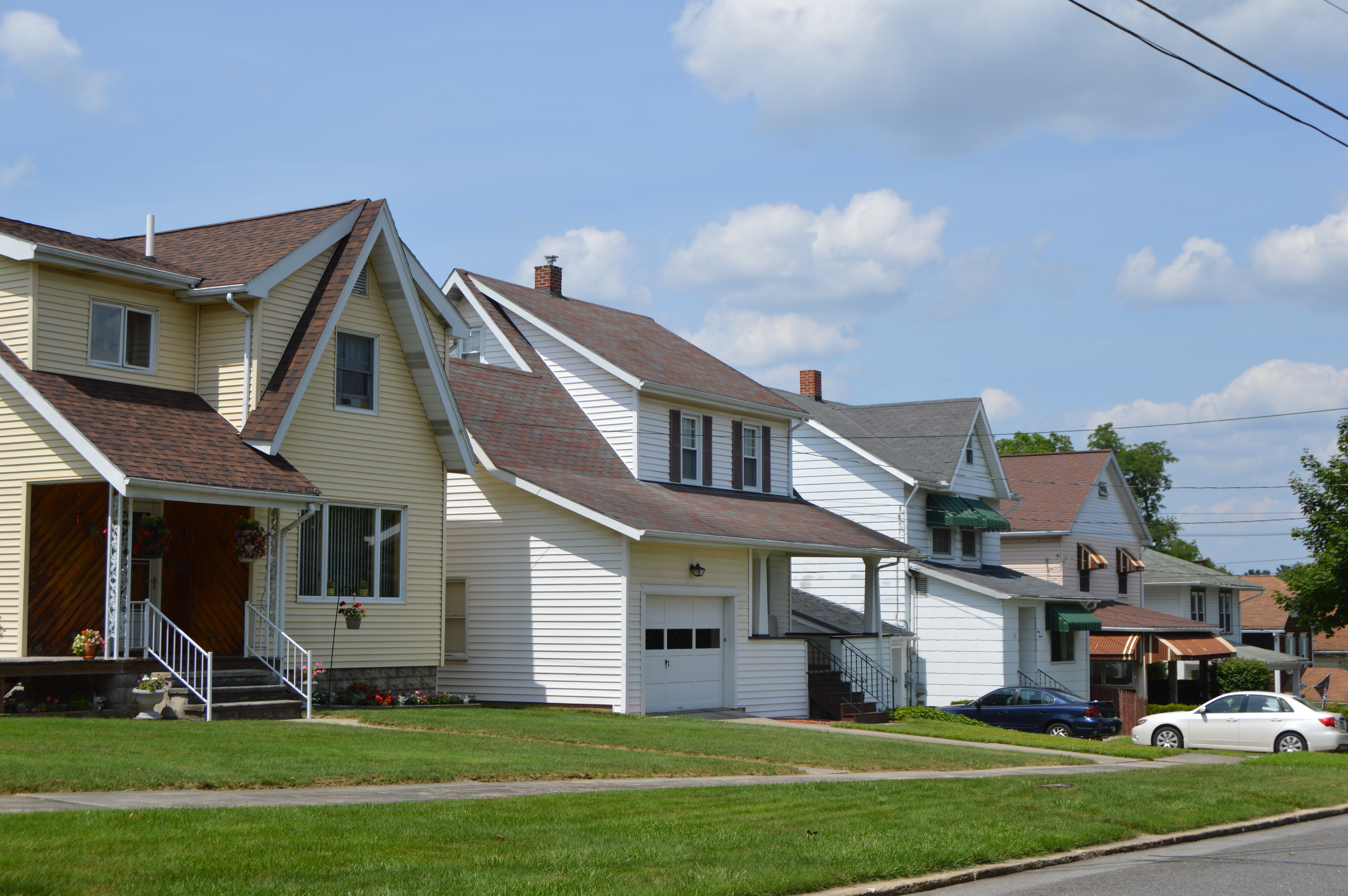 Houses on King Street, seen from Dahlia Street, in Southmont, Pennsylvania, United States.